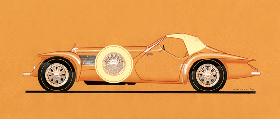 The original drawing has been donated to the Museum of Fine Arts, Boston, but the image posted here was made by me, T. W. Pietsch III. Please see the correspondence below from Jennifer C. Riley, Head of Image Licensing and Digital Archives Museum of Fine Arts, Boston. You may tell them that while the Museum of Fine Arts, Boston owns the artwork; we do not retain the copyright to Theodore Wells Pietsch II’s images. Best, Jennifer Jennifer Riley Head of Image Licensing and Digital Archives Museum of Fine Arts, Boston | 617-369-3777 Dear Mr. Pietsch, Regarding copyright, you retain copyright to any photos you took of the drawings made by your father. The copyright to the artworks and photographs does not revert to the Museum automatically upon donation of the works. The copyright to the photographs that you took stays with you so you have every right to upload those photos to Wikipedia. I am happy to provide you with language necessary for you to pass on to Wikipedia so you can reload the images. Since the Museum does not, in fact, hold the copyright to those photos, we cannot upload them. Best, Jennifer Jennifer Riley Head of Image Licensing and Digital Archives Museum of Fine Arts, Boston | 617-369-3777